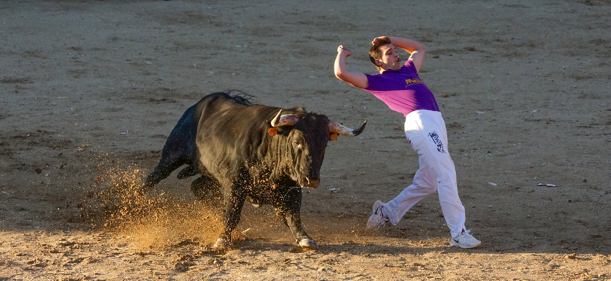 500px provided description: Photos of bullfighting cuts from a town of Spain: Madrigal de las Altas Torres. [#animal ,#espa?a ,#spain ,#bull ,#torres ,#bullfight ,#bullfighting ,#cuts ,#avila ,#altas ,#madrigal]